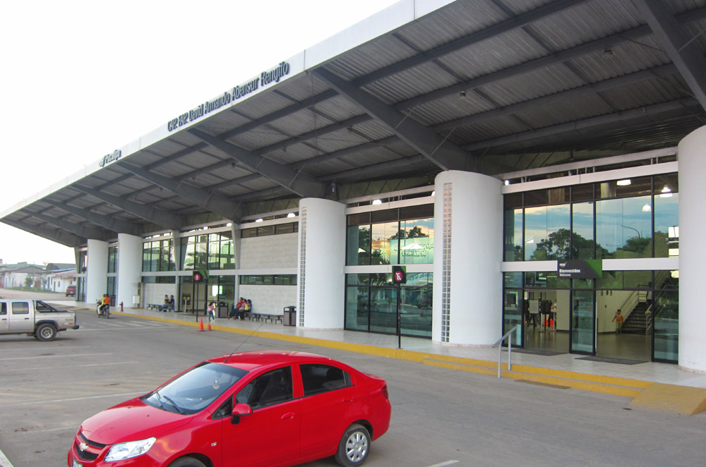 An external view of Pucallpa Airport